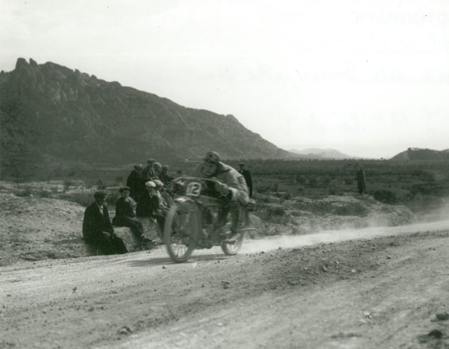 A racer at the Hillclimbing race to El Bruc ("Pujada als Brucs"), 1913